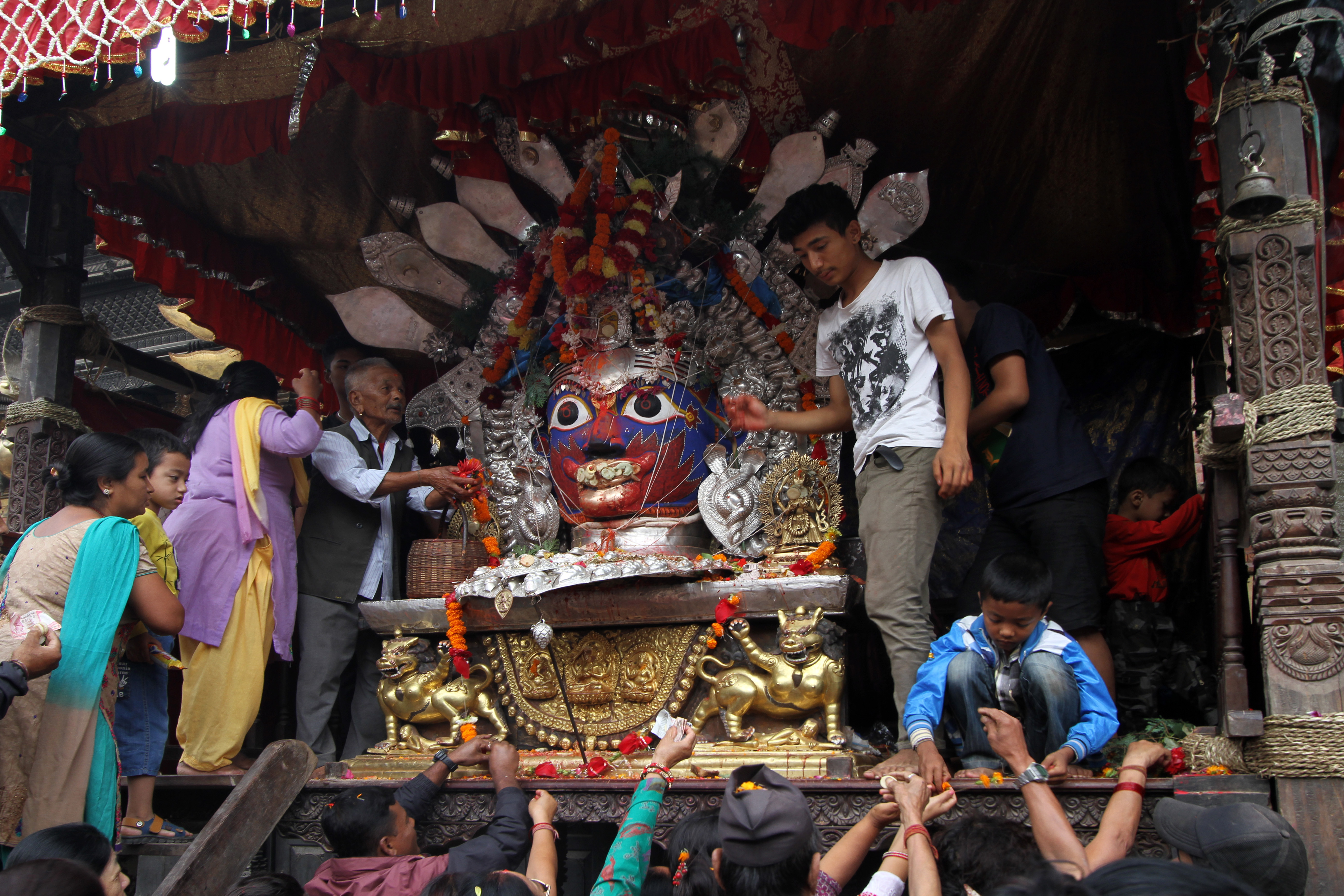 Akash Bhairab Mandir in Kathmandu in Nepal